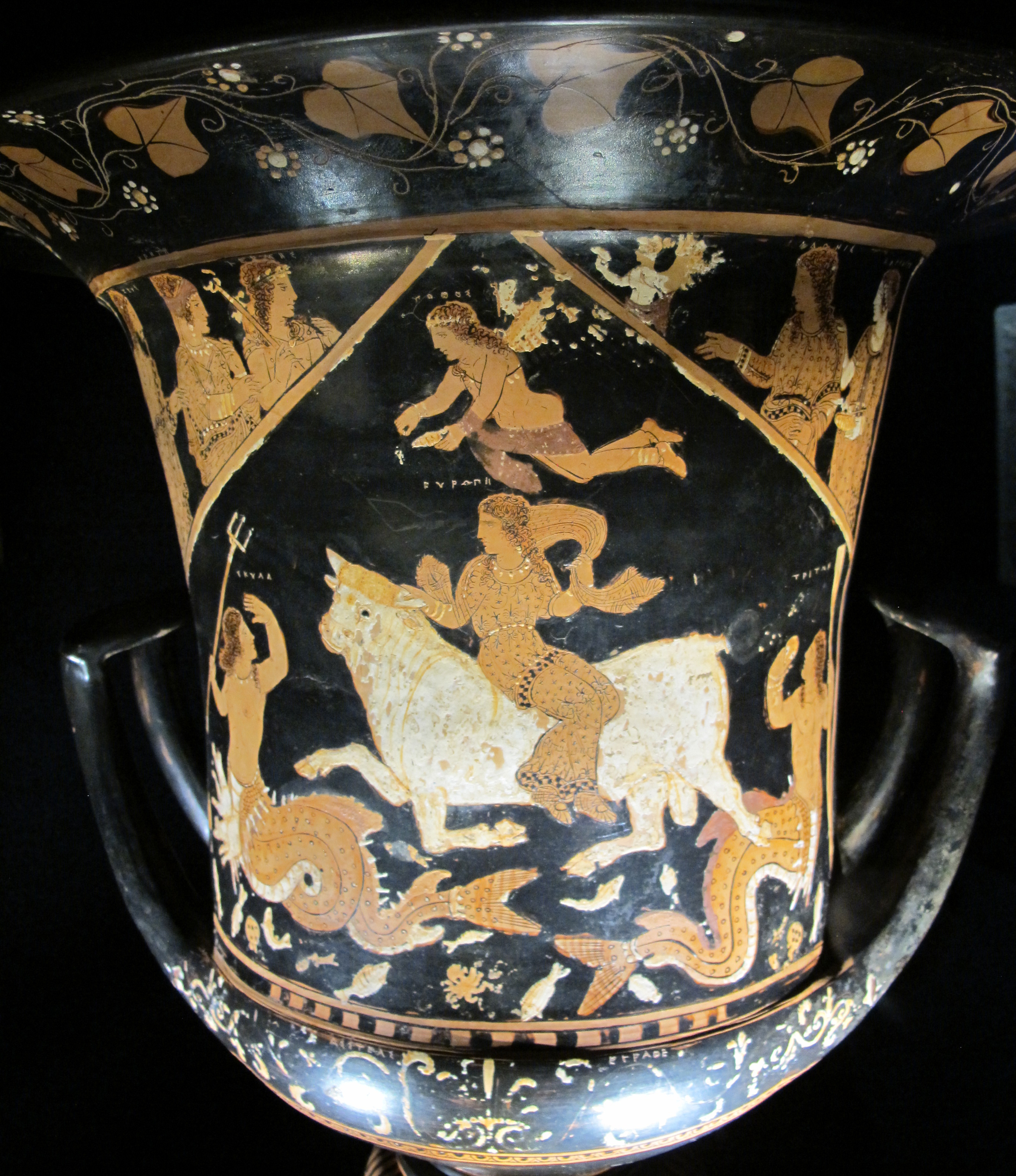 Monsters Exhibition (Palazzo Massimo, Rome, 2014)